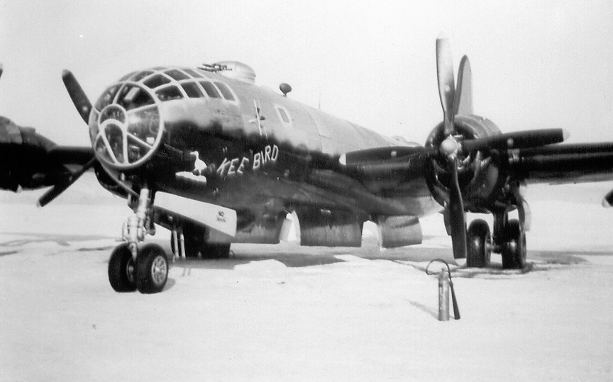 Photo of the B-29 "Kee Bird" prior to its crash in Greenland in February 1947.